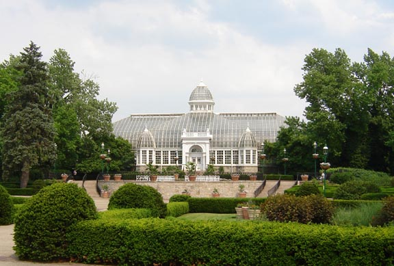 Columbus Ohio - Franklin Park Conservatory - 05-28-07 BY:Mike Sharp.